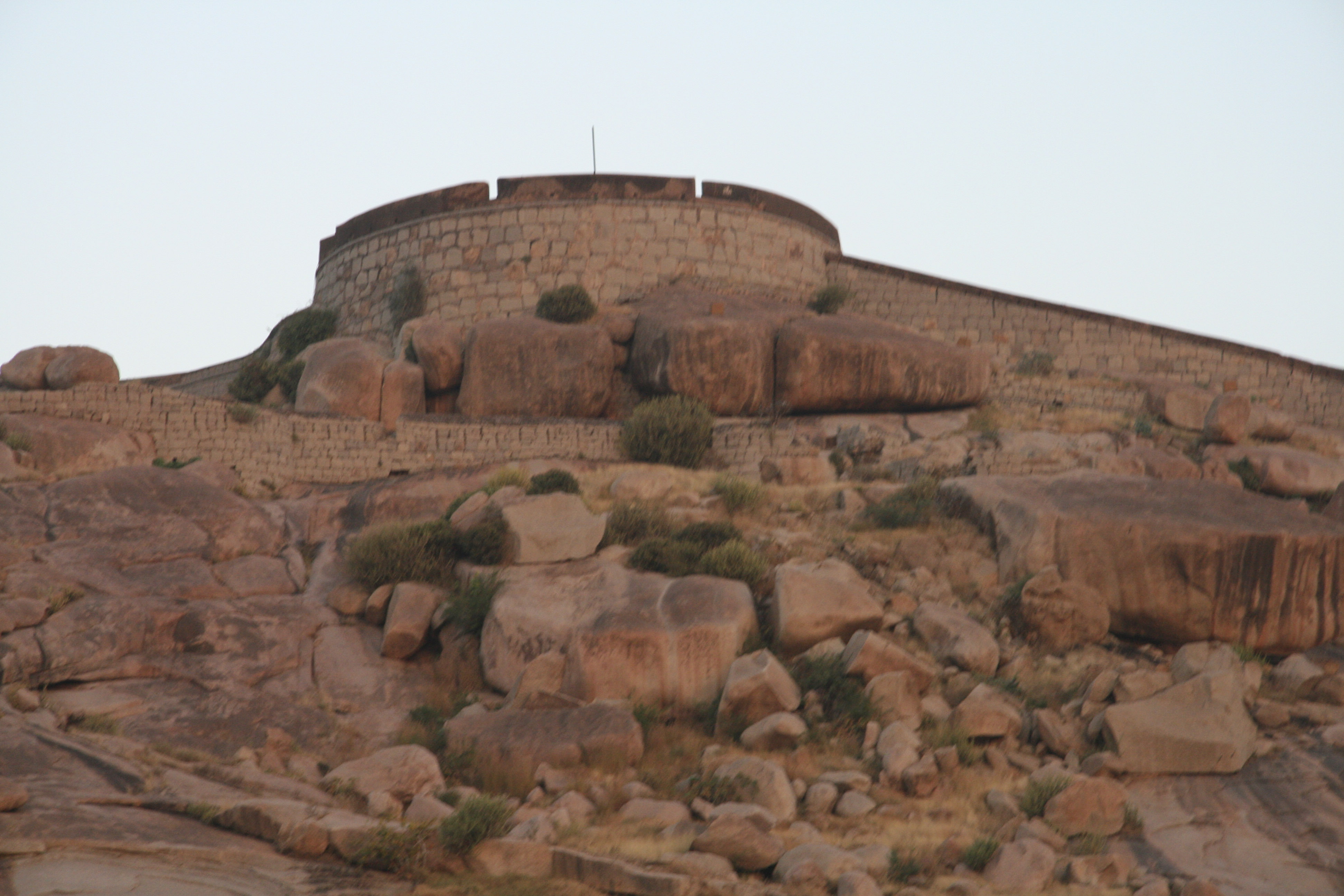 The fort above Bellary.